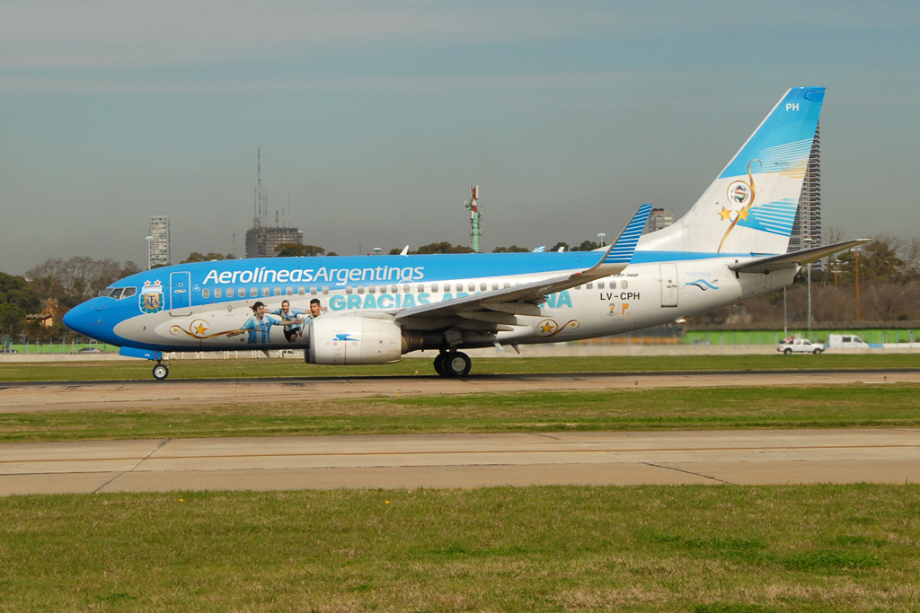 LV-CPH Aerolineas Argentinas Boeing 737-7Q8 msn 28238/817